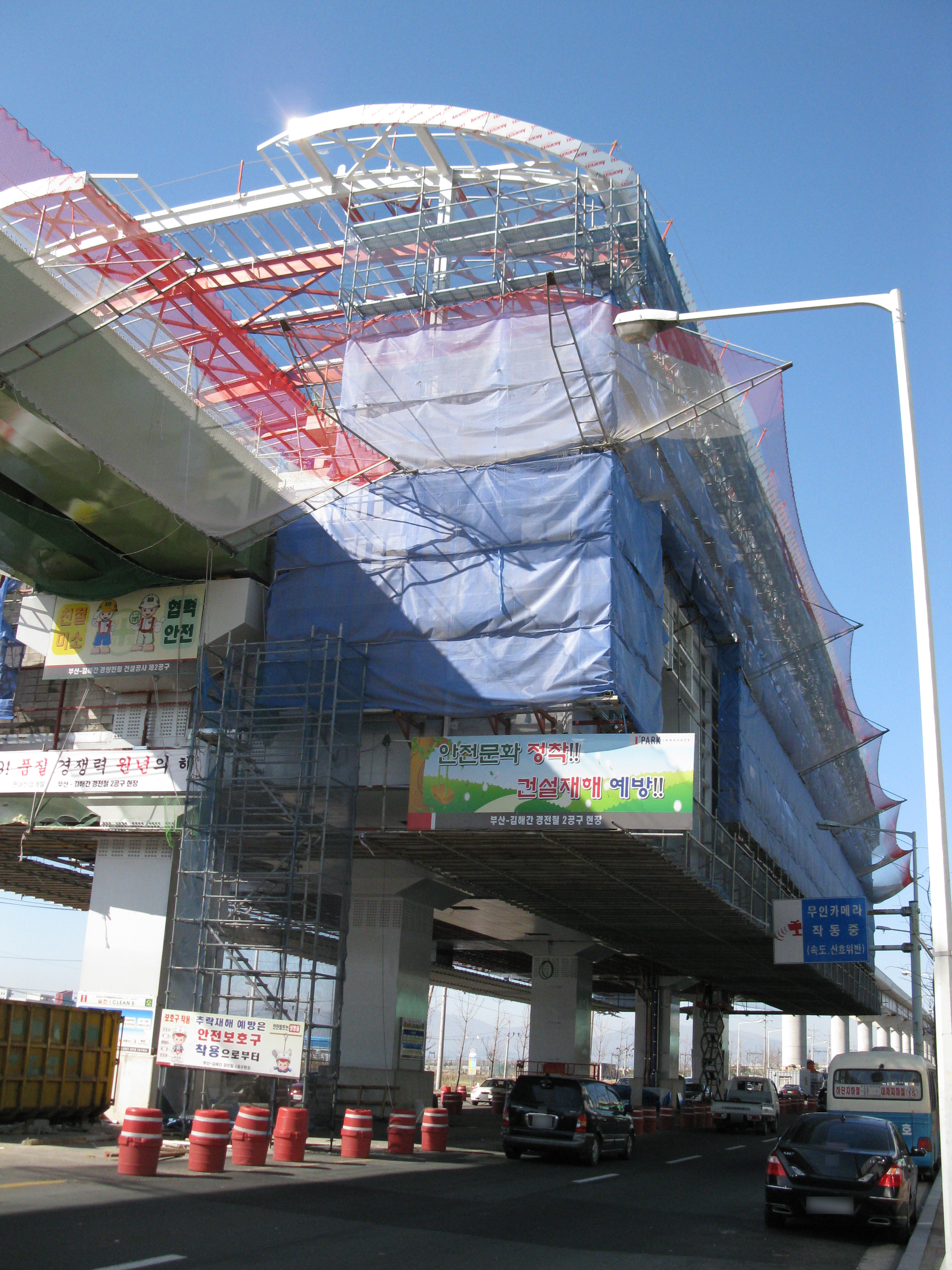 Daejeo Station under construction (Busan-Gimhae Light Rail Transit)